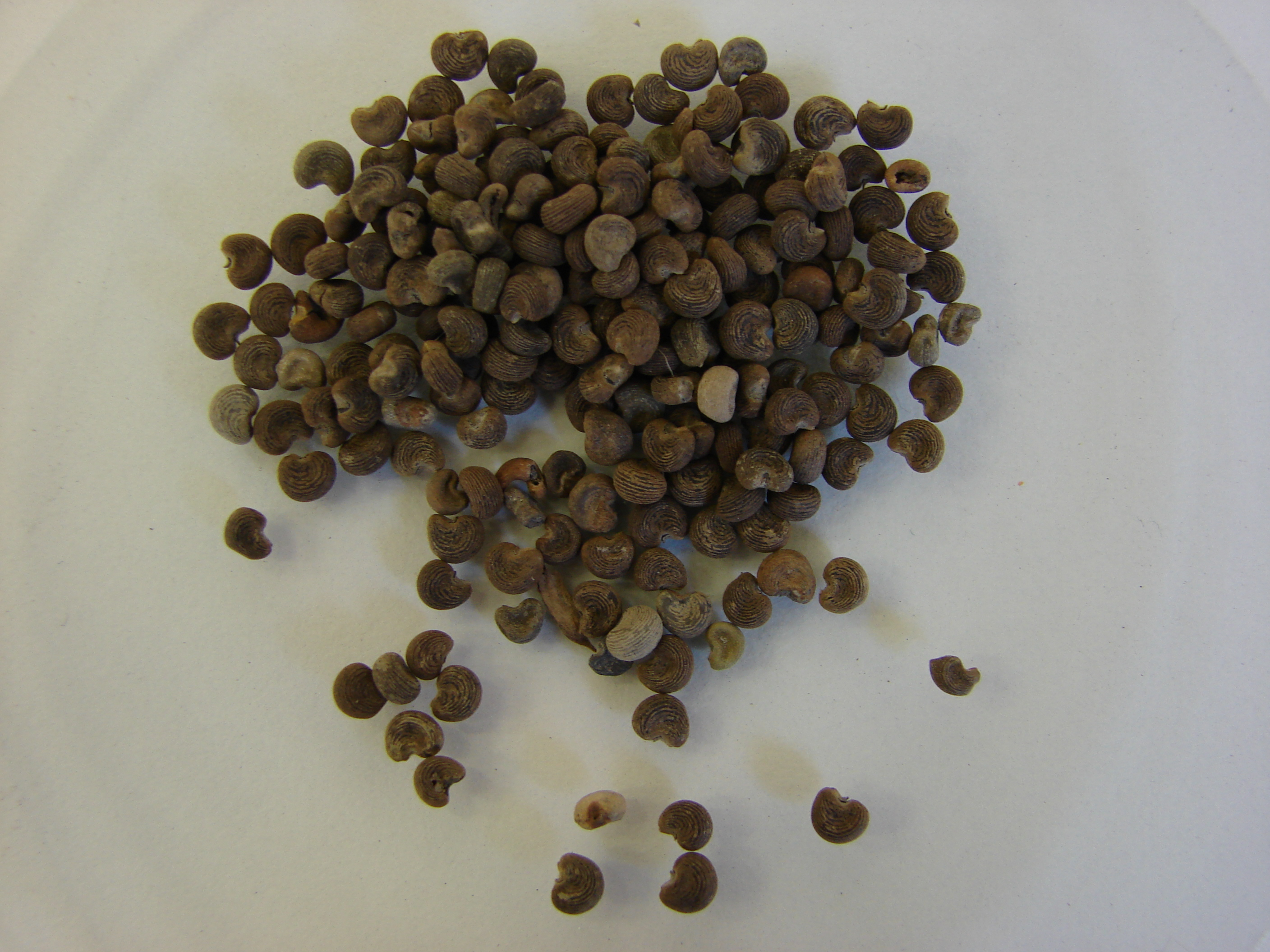 Abelmoschi semen, Abelmoschus moschatus